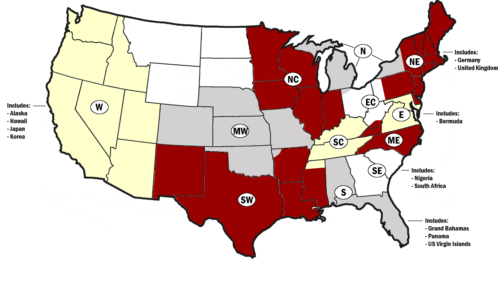 Map of the twelve provinces of Kappa Alpha Psi Fraternity, Incorporated. States and/or countries outside of the lower 48 states of the United States are noted adjacent to their respective provinces.